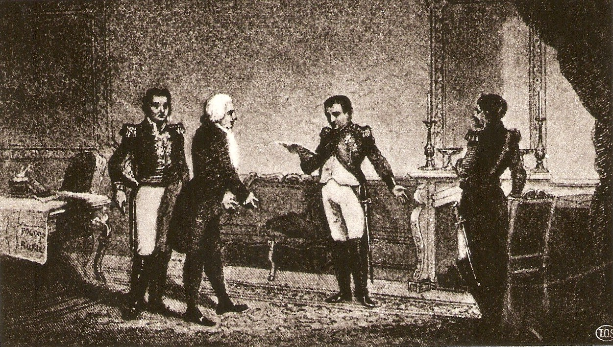 Gen. Jan Henryk Dąbrowski and Józef Wybicki meet Emperor Napoleon in Berlin in 1806